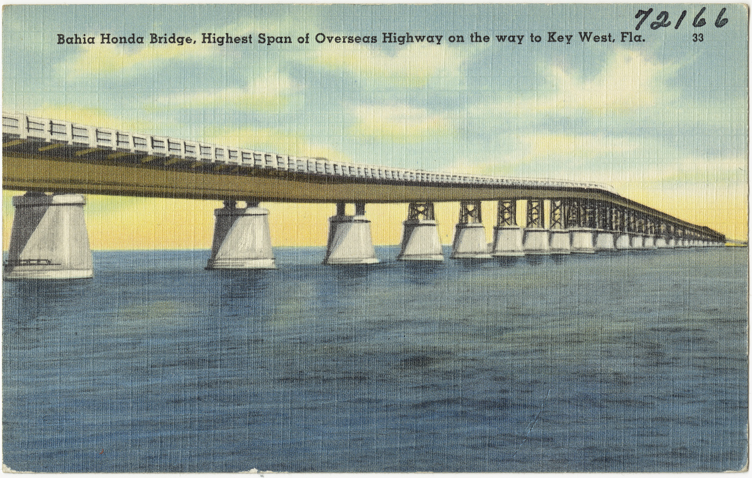 File name: 06_10_006940 Title: Bahia Honda Bridge, highest span of Overseas Highway on way to Key West, Florida Date issued: 1930 - 1945 (approximate) Physical description: 1 print (postcard) : linen texture, color ; 3 1/2 x 5 1/2 in. Genre: Postcards Subject: Bridges Notes: Title from item. Collection: The Tichnor Brothers Collection Location: Boston Public Library, Print Department Rights: No known restrictions